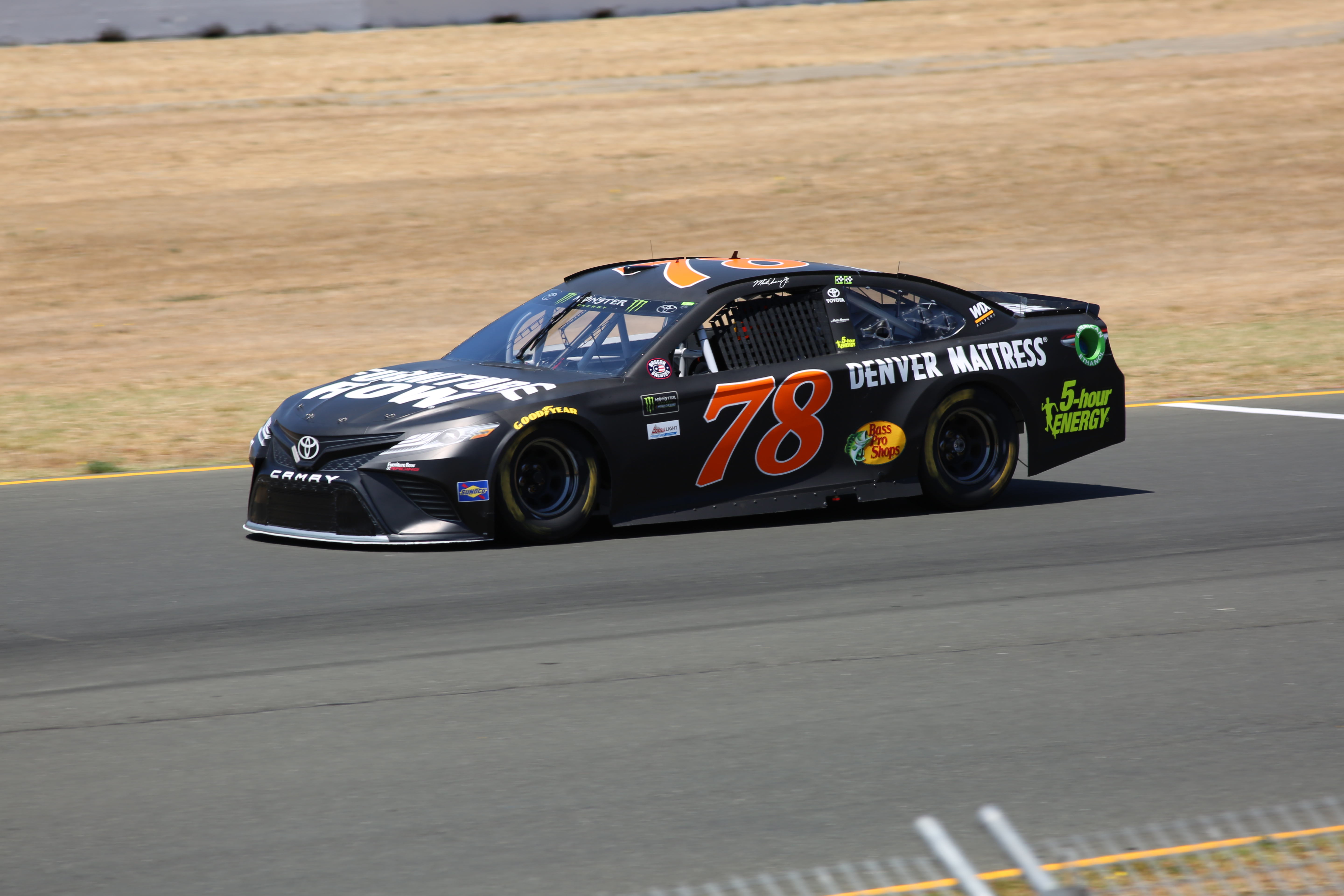 Martin Truex Jr.'s No. 78 Furniture Row Toyota at Sonoma Raceway in 2017